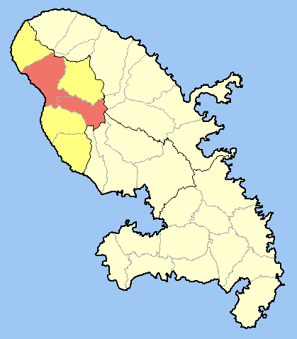 Location of Saint-Pierre and Fonds-Saint-Denis within Martinique